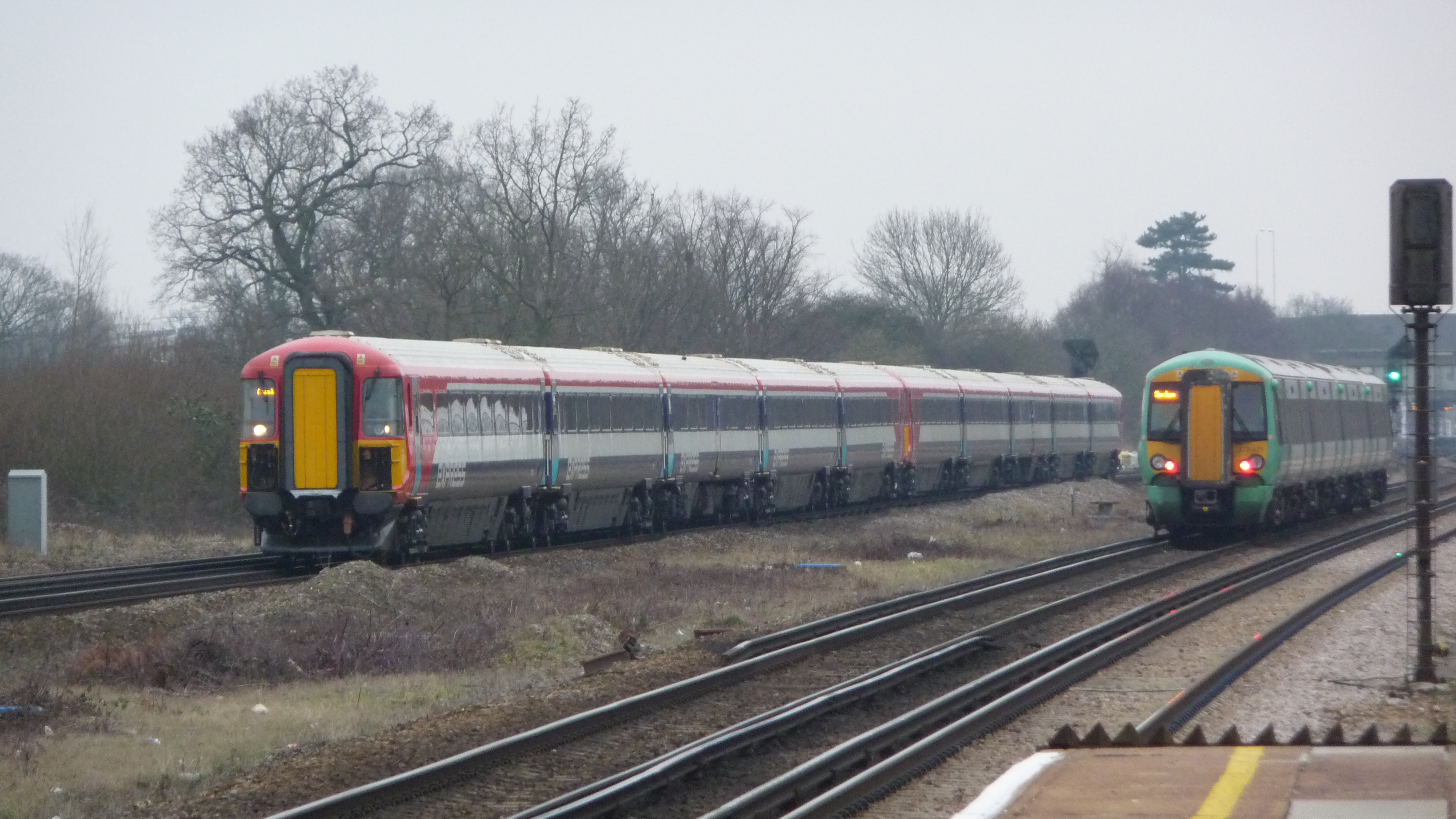 Two trains just south of Horley railway station, Horley, Surrey. The train on the left is Gatwick Express 442412, heading for London having just left Gatwick. 442412 is the unit closest to the camera. The other unit is 442402. The train on the right is Southern 377421, with a service to Horsham.